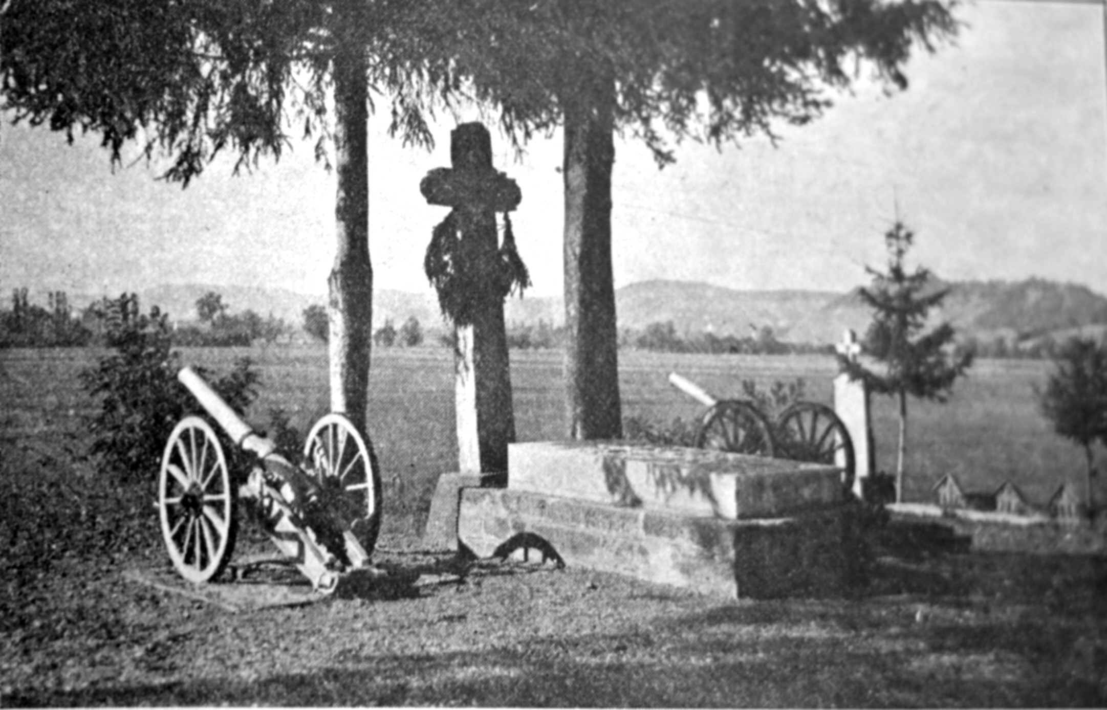 Tomb of Avram Iancu in 1930's